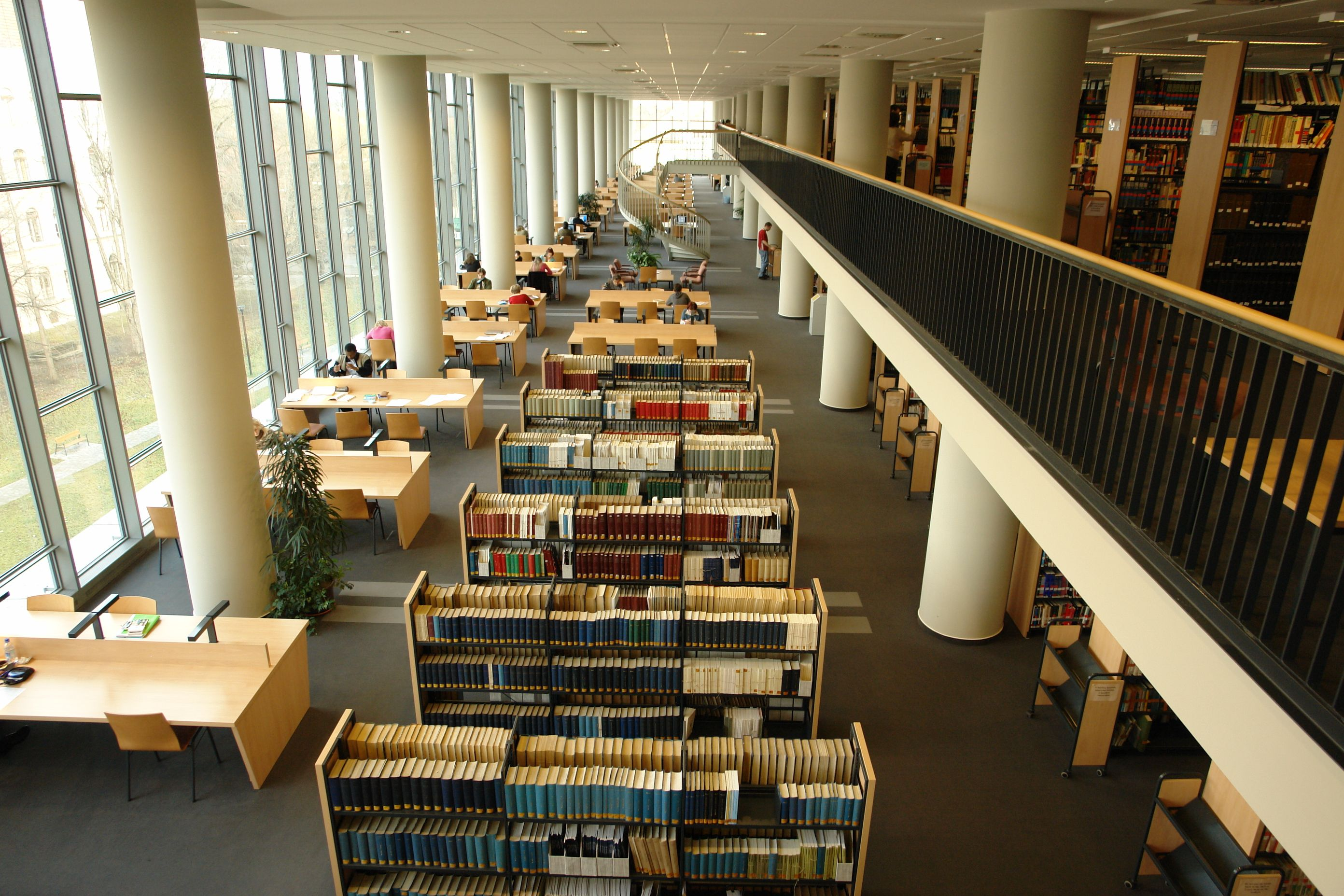 Reading room of the SZTE Klebelsberg University Library